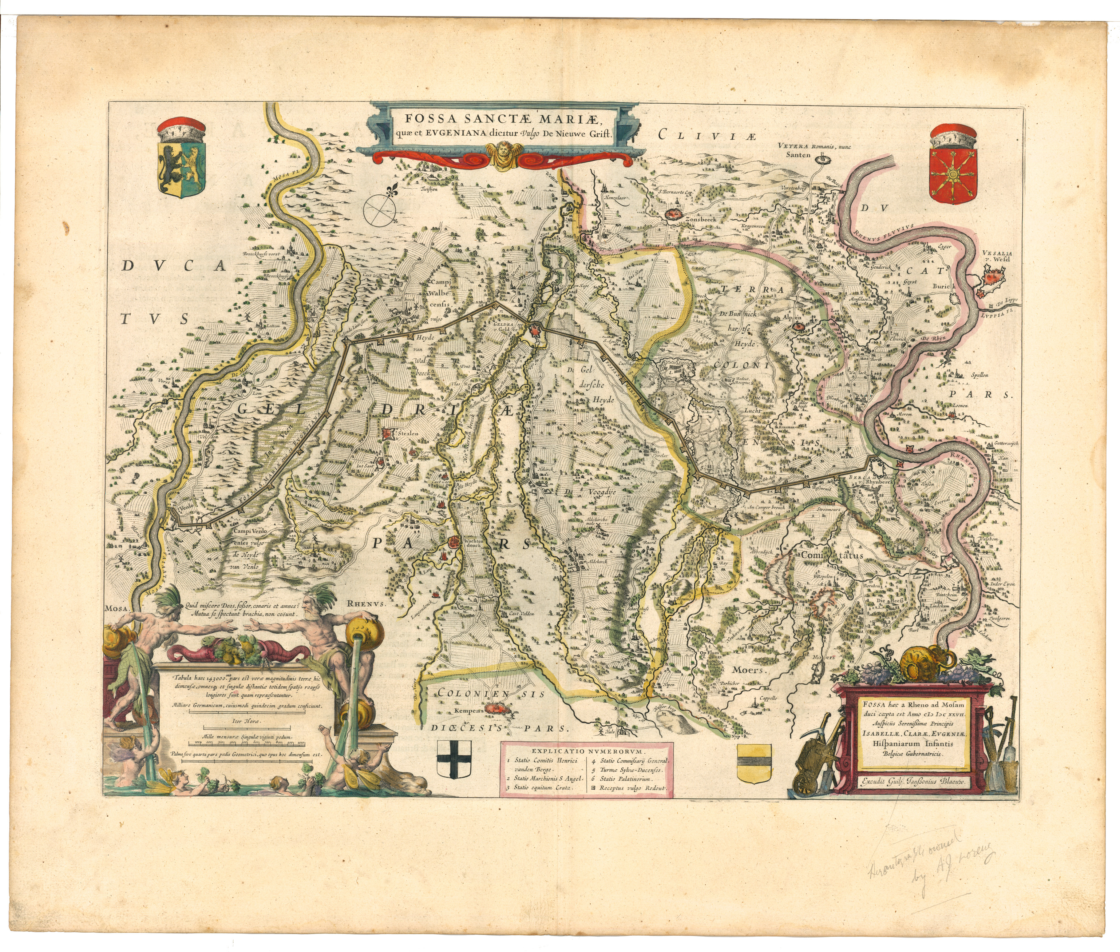 Title : Fossa Sancta Mariæ, quæ et Eugeniana dicitur vulgo De Nieuwe Grift (Canal of Saint Mary, also that of Eugenia, commonly called The New Canal [Fossa Eugeniana, historic canal in Germany]) from "Theatrum Orbis Terrarum, sive Atlas Novus in quo Tabulæ et Descriptiones Omnium Regionum, Editæ a Guiljel et Ioanne Blaeu" (Theater of the World, or a New Atlas of Maps and Representations of All Regions, Edited by Willem and Joan Blaeu), 1645.